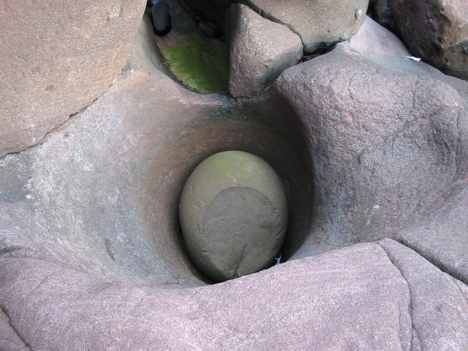 Interesting feature